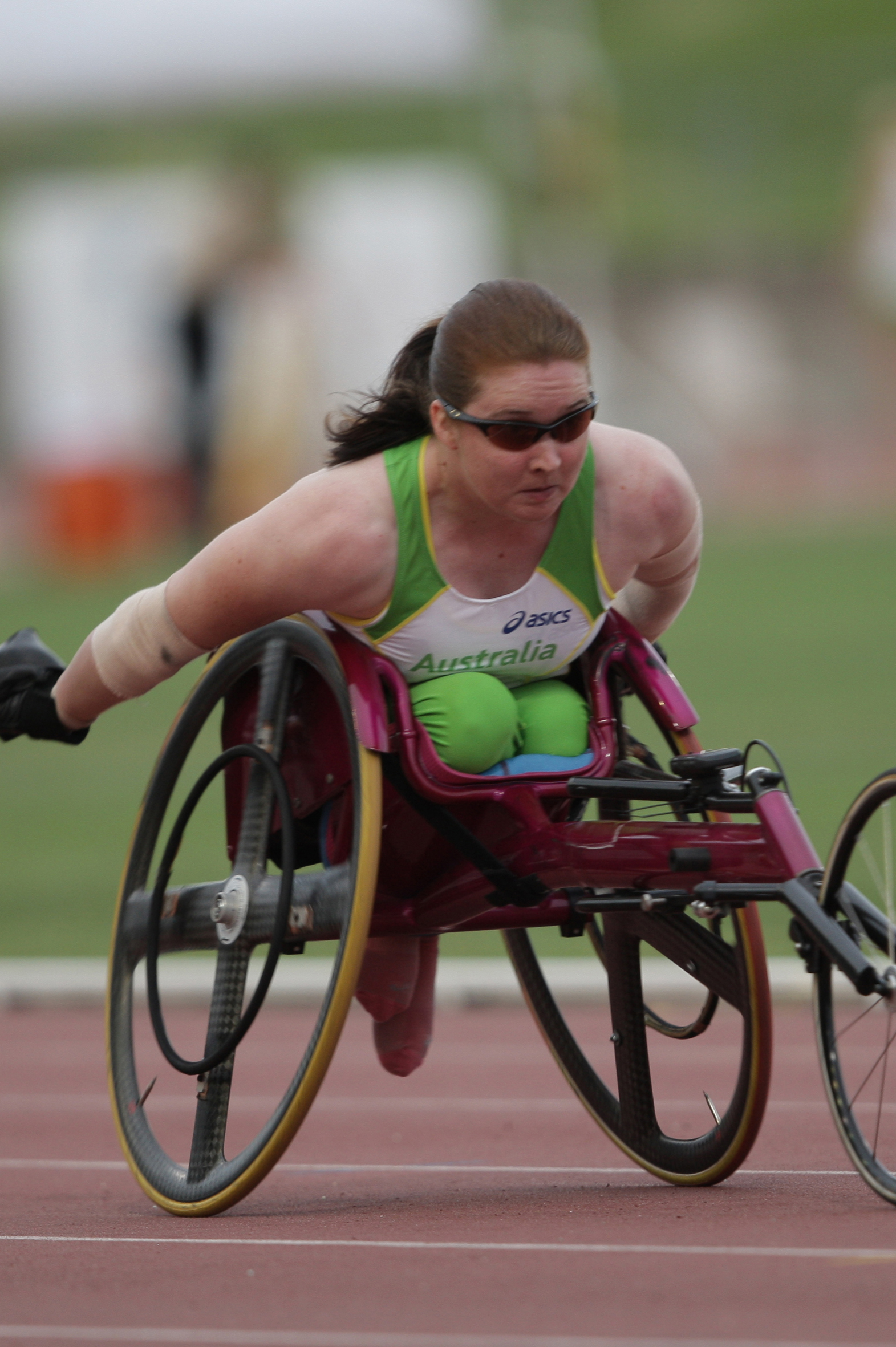 Australian Paralympic wheelchair track athlete Angie Ballard competes at the 2011 World Championships warm-up meet in Sydney, January 2011